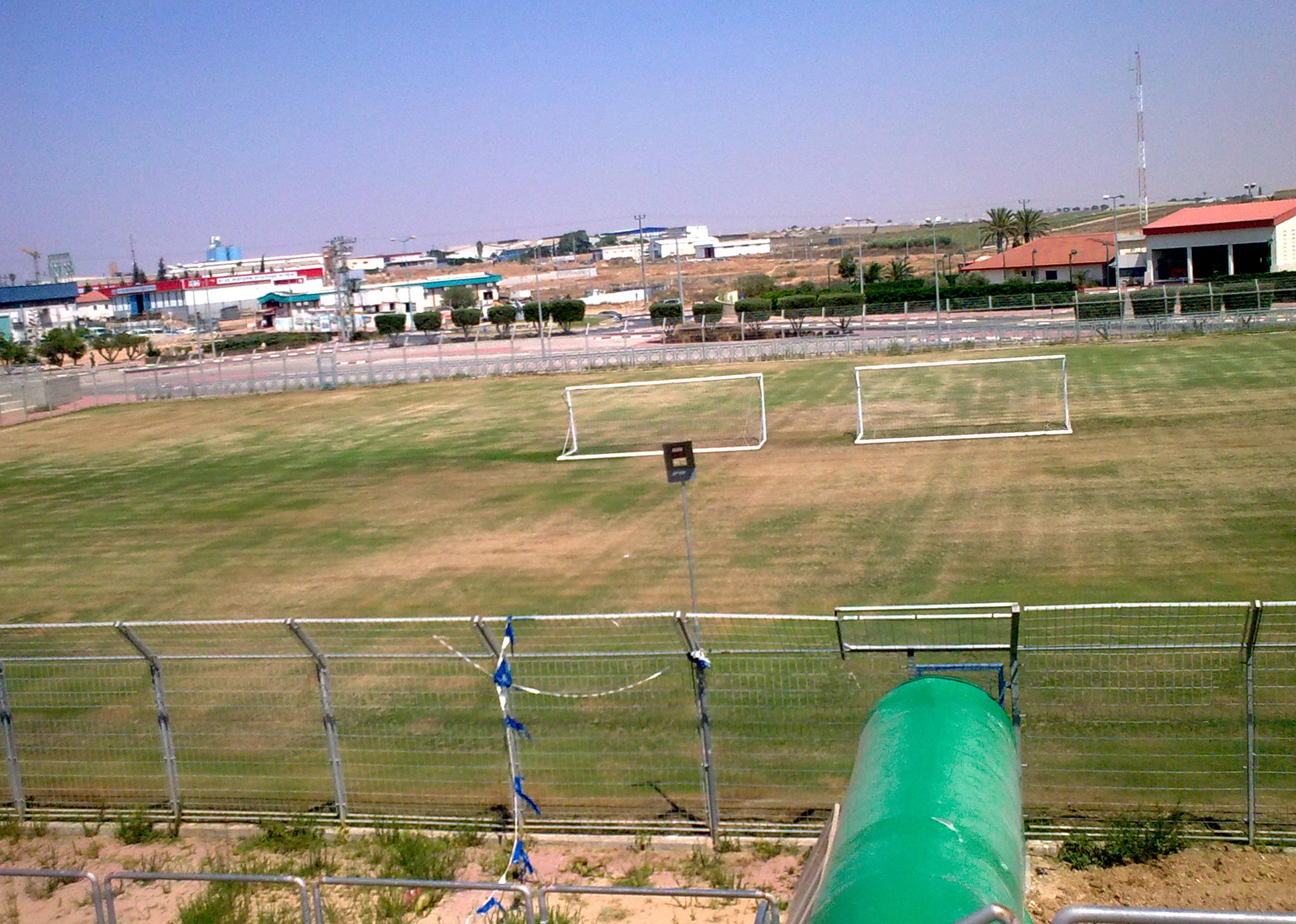 Netivot Municipal Stadium, Israel